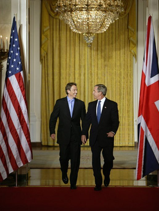 U.S. President George W. Bush and British Prime Minister Tony Blair walk through the Cross Hall of the White House before the start of their news conference.